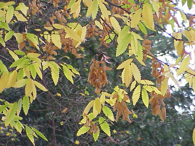 Species: Zelkova carpinifolia Family: Ulmaceae Image No. 2